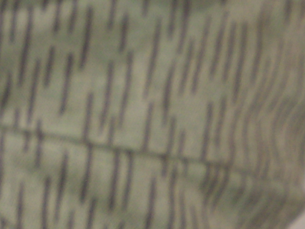 Czechoslovak camouflage pattern jehliči ("m. 1960", 1963)